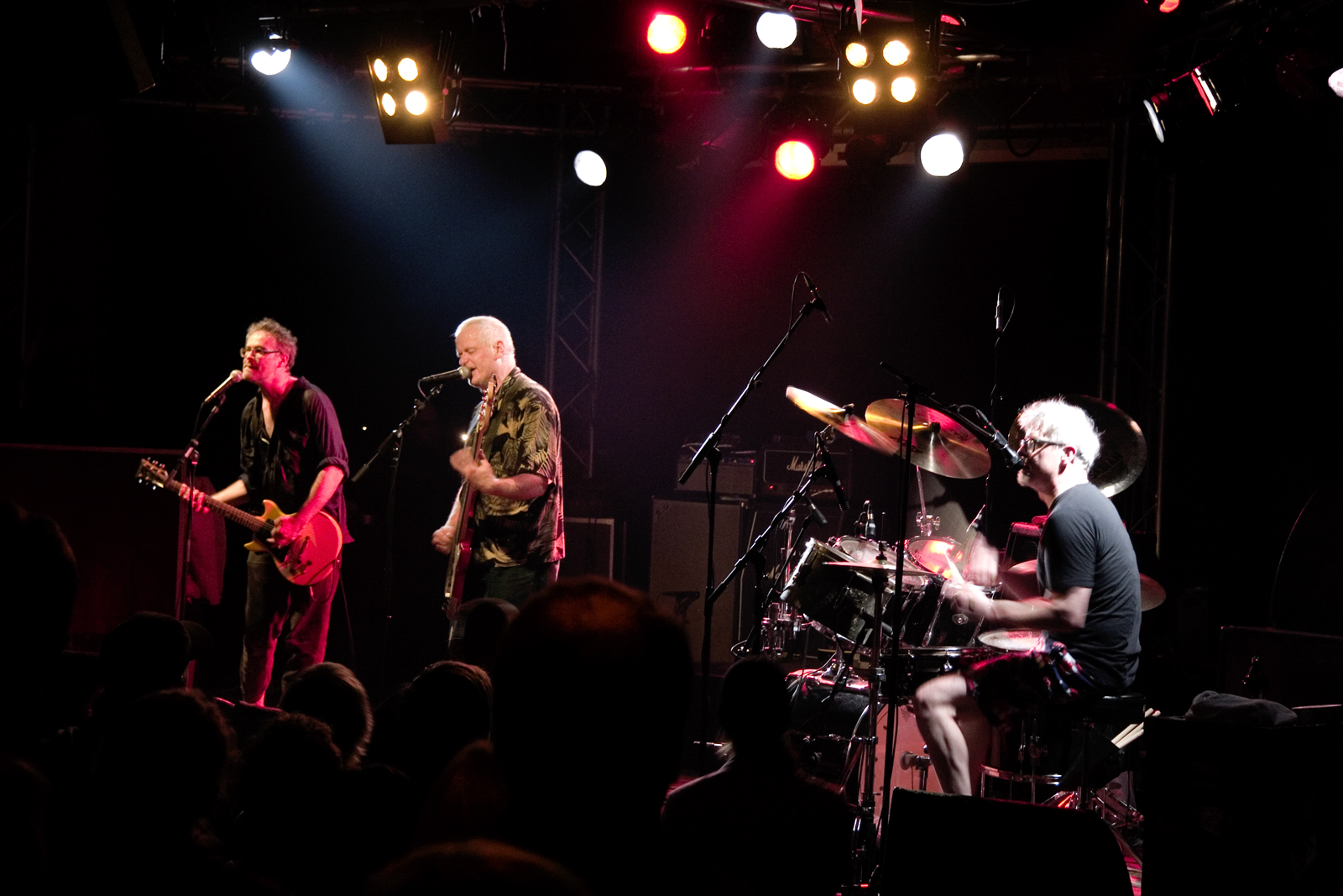 NoMeansNo, Tampere 18.04.2007